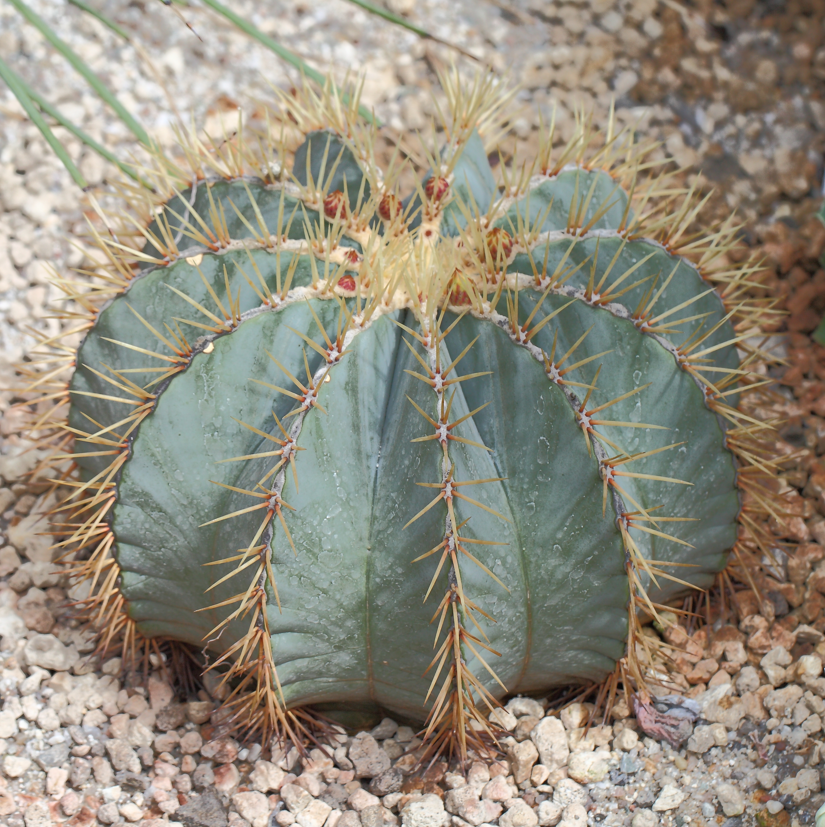 Ferocactus glaucescens, Botanic Garden, Munich, Germany